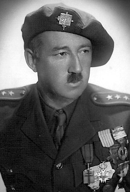 Lt.Col. Otto Wagner, circa 1945.